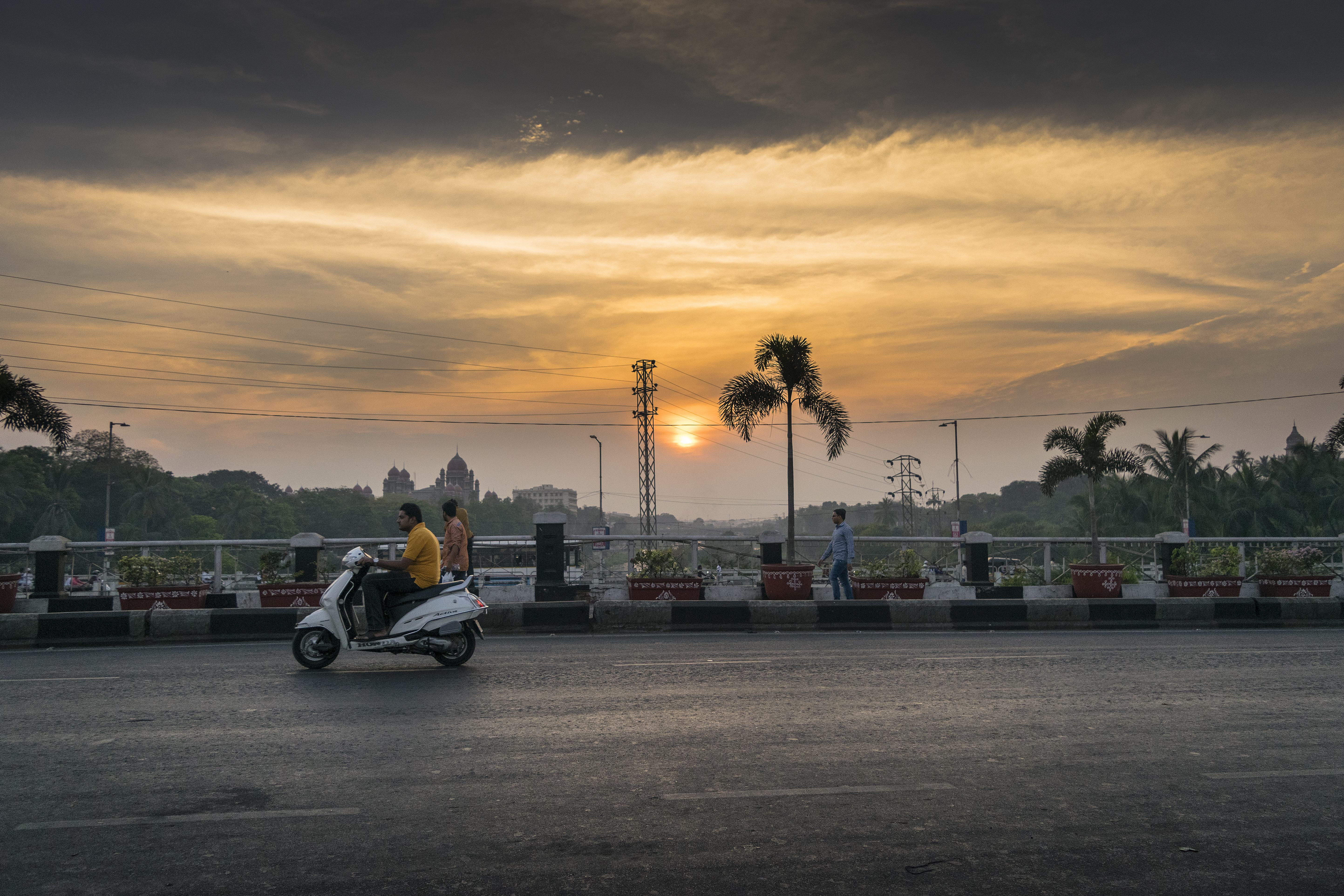 Nayapul